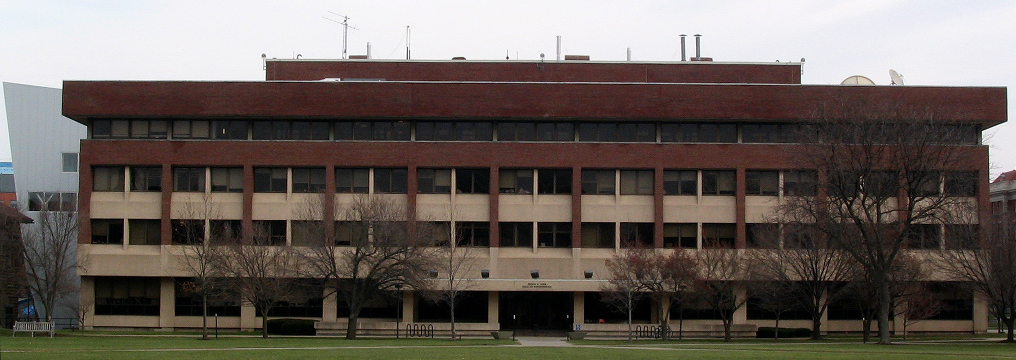 This is an image of Link Hall that I took with my digital camera. This building is located on Syracuse University.